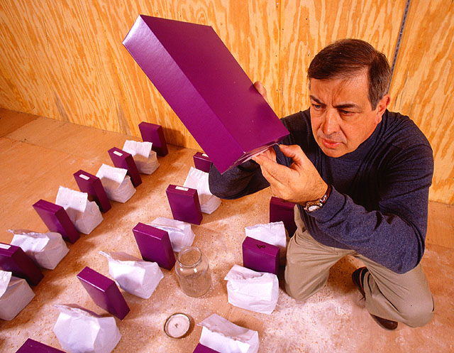 Entomologist checks seals for signs of infestation after a 3-month test of consumer-size packages.